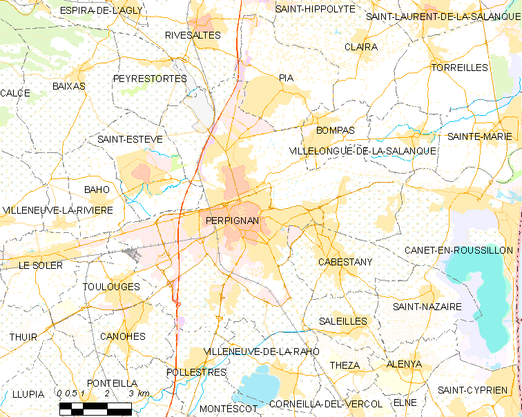 Map of French municipality